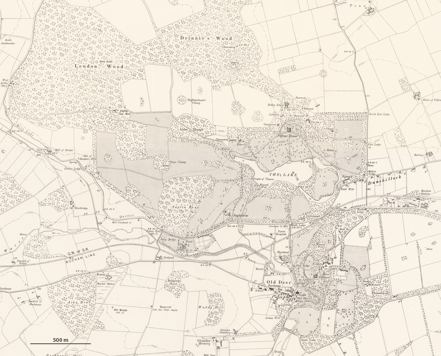 Map of Pitfour House, Aberdeenshire, Scotland